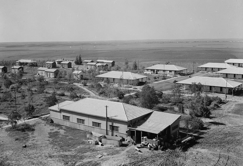 Photo actually taken in June, 1946. The settlement of kibbutz Gat was established in 1941 Name changed to 1946 by Kordas